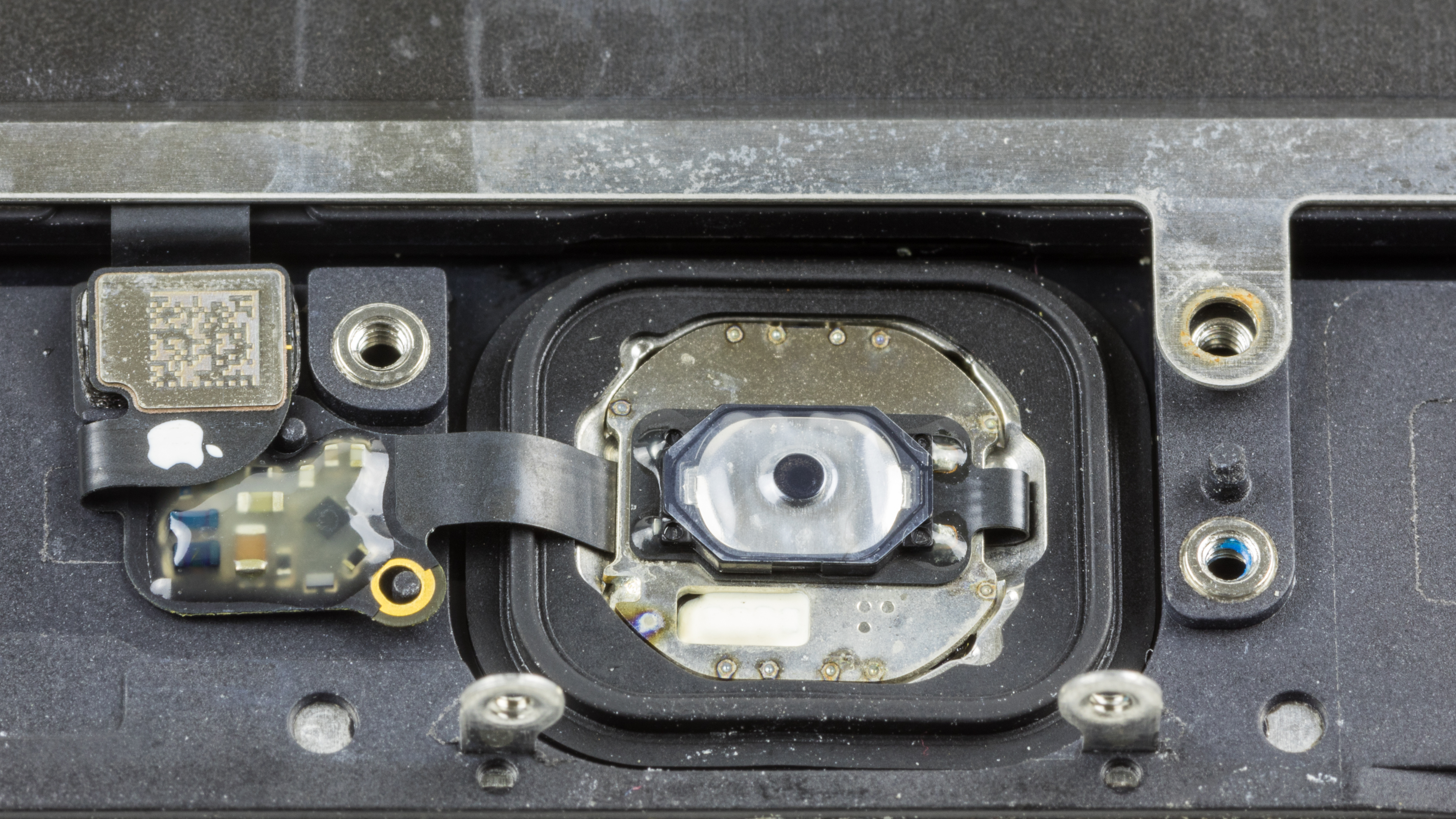 IPhone 6s - Touch ID rear view